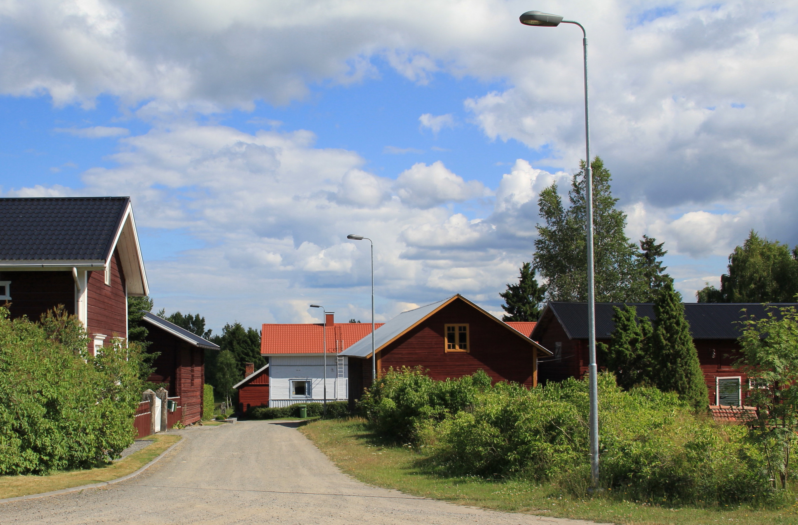 Ahlainen village, Ahlainen, Pori, Finland. - Village road.